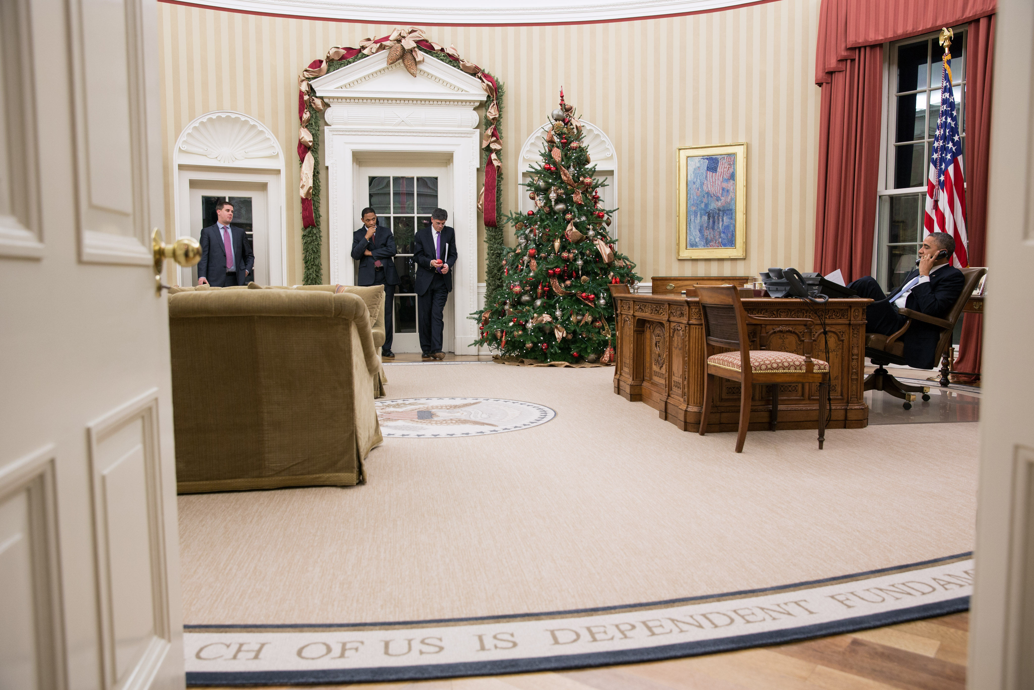 United States President Barack Obama talks on the telephone with Representative John Boehner, Speaker of the House, in the Oval Office on 11 December 2012. Pictured, from left, are: Director of Communications Dan Pfeiffer; Rob Nabors, Assistant to the President for Legislative Affairs; and Chief of Staff Jack Lew.